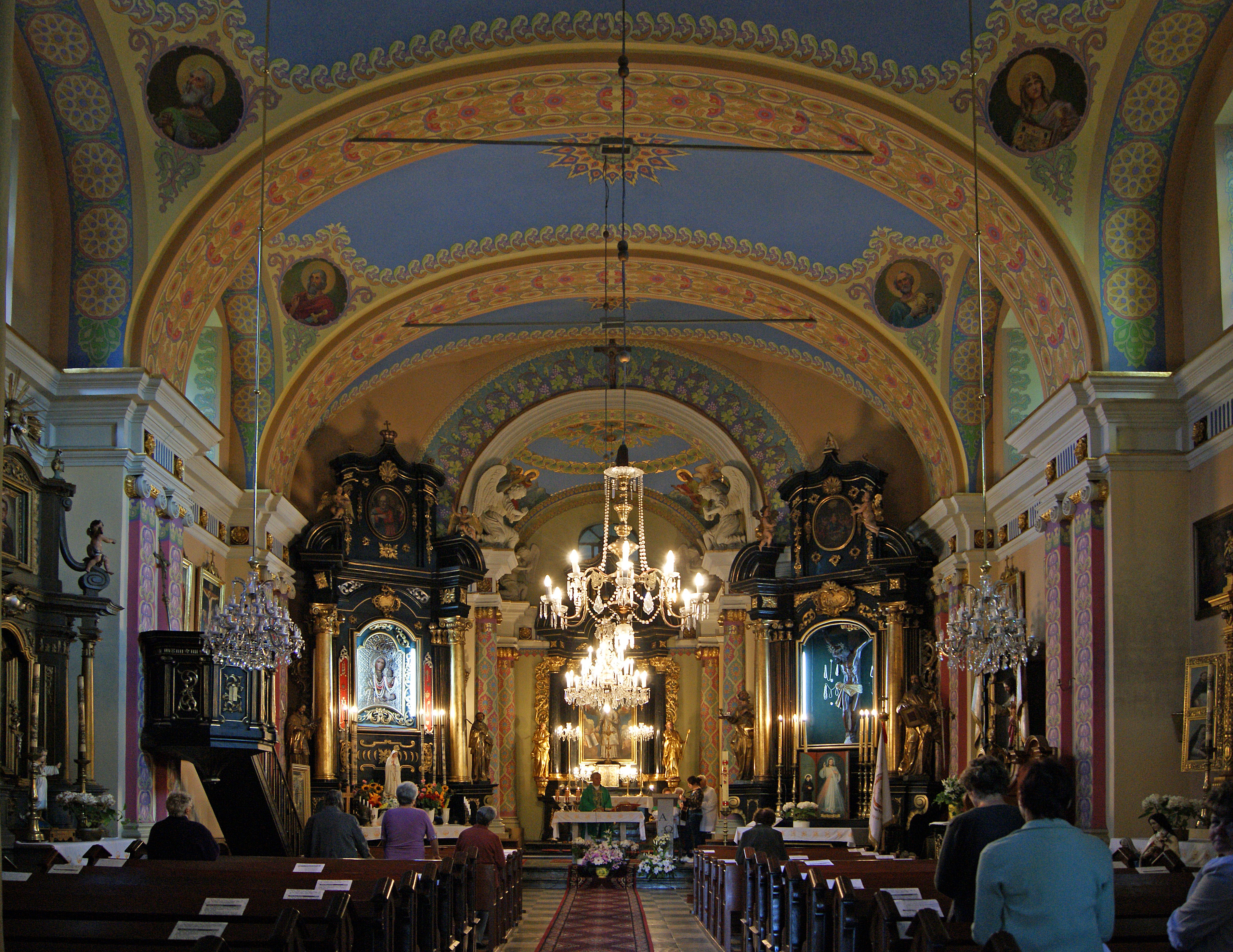 Church of St Vincent of Saragossa and Nativity of the Theotokos (interior), 12 Nadbrzezie str, Pleszow, Krakow, Poland